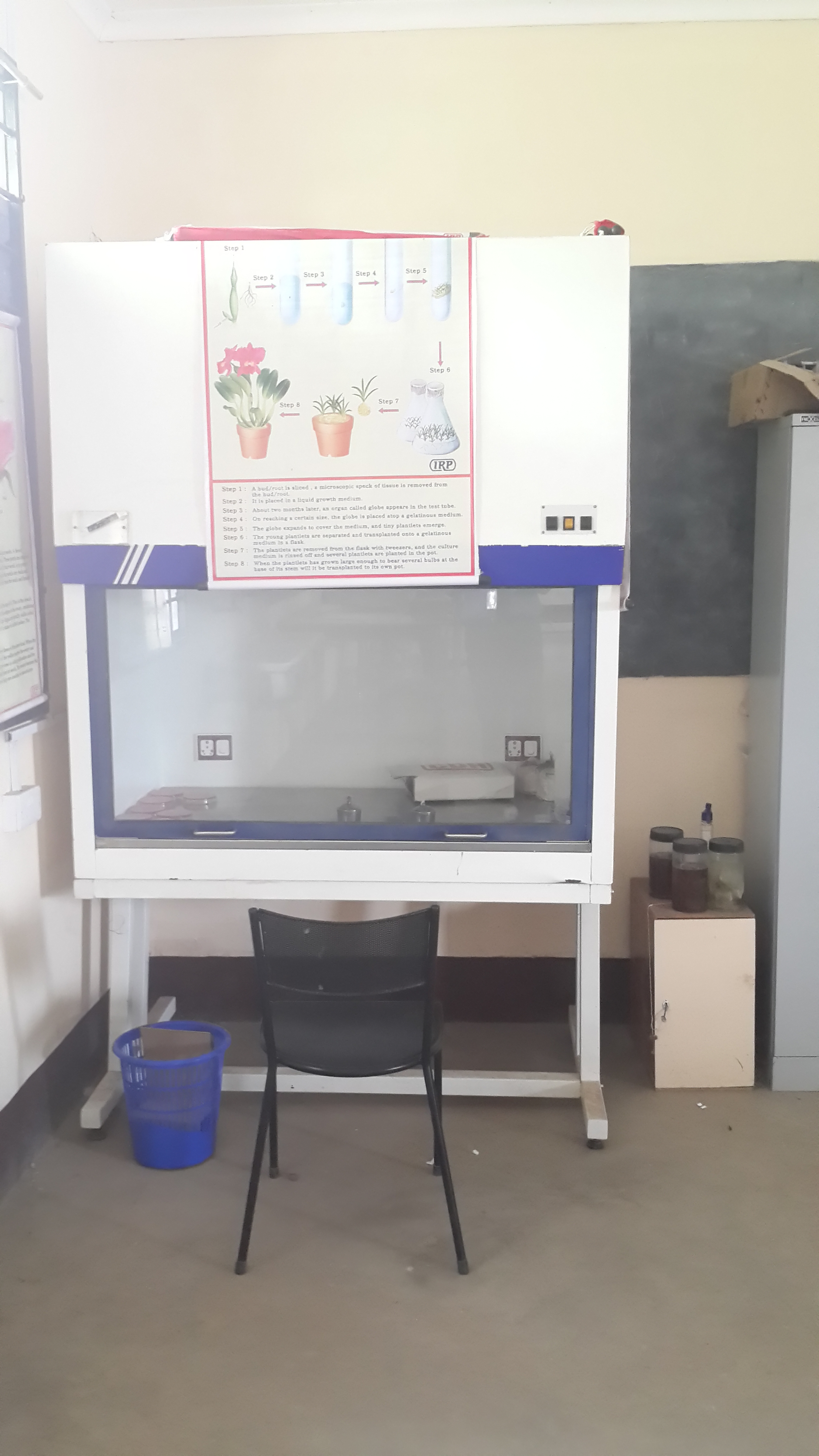 Laminar Air Flow Chamber